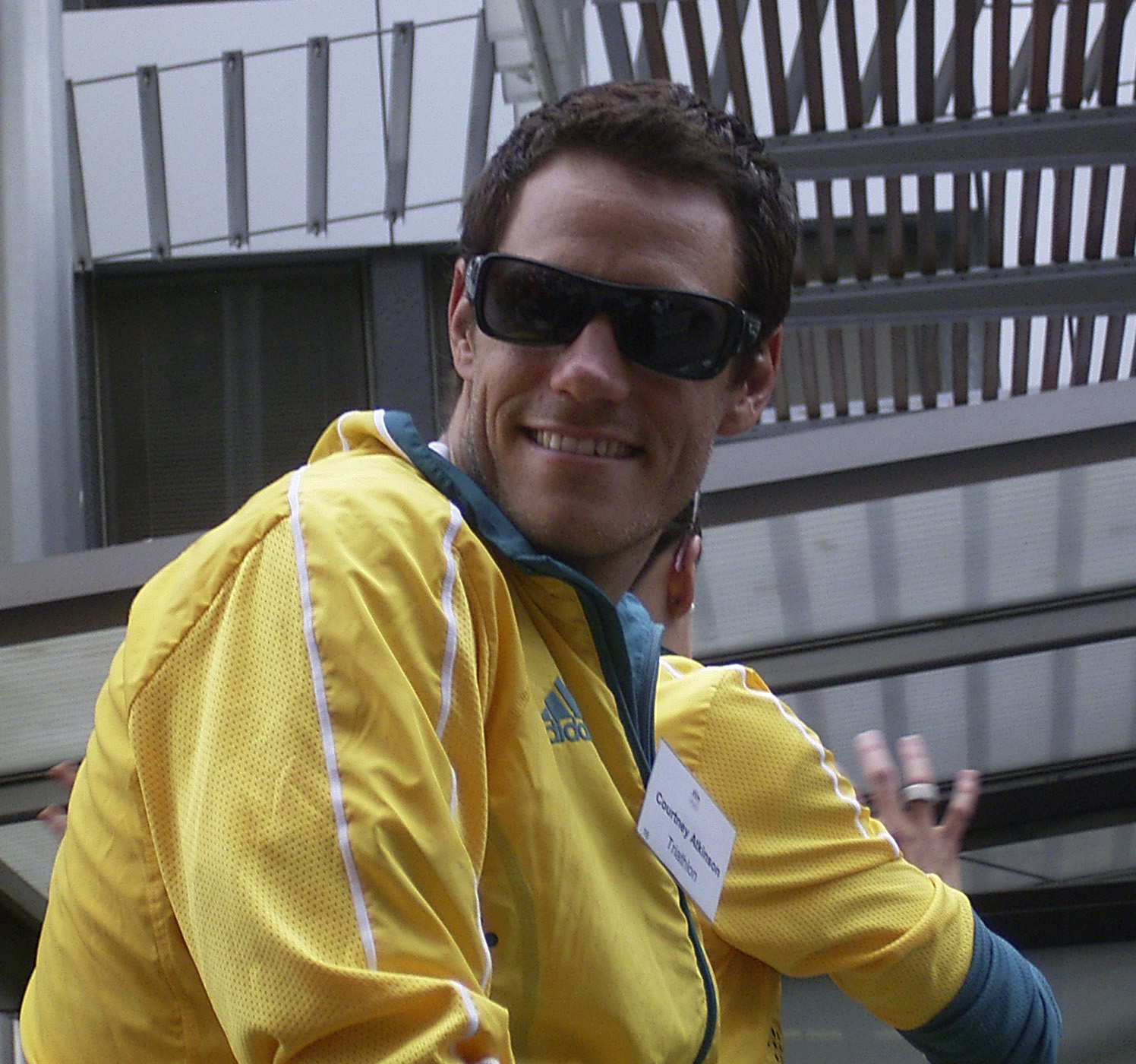 Australian olympian Courtney Atkinson, Brisbane Olympic Homecoming Parade